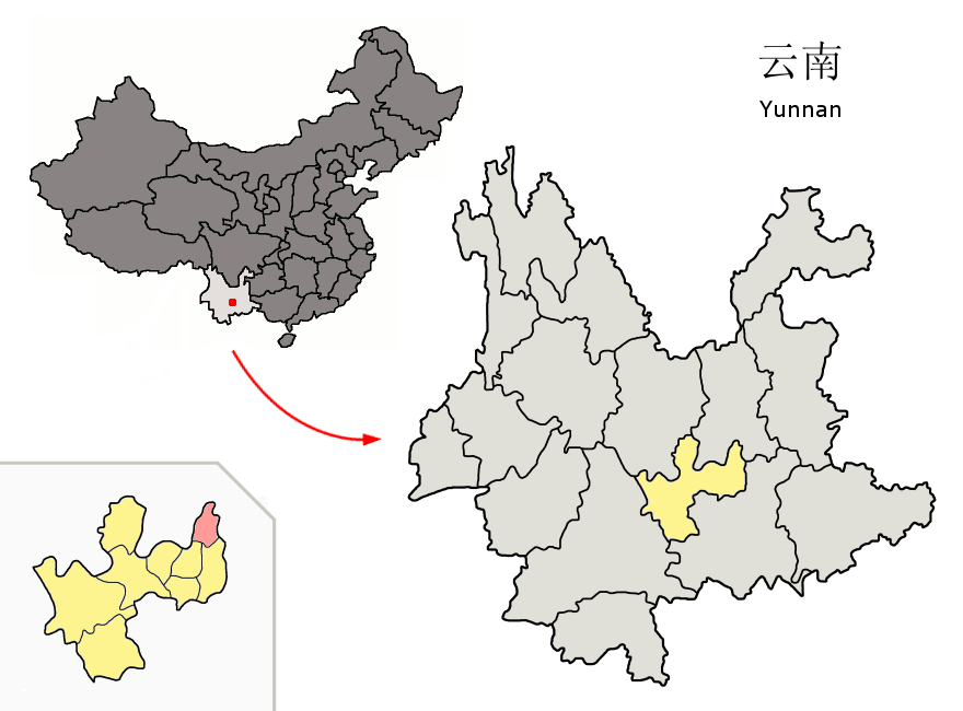 Location of Chengjiang County (pink) and Yuxi Prefecture (yellow) within Yunnan province of China Map drawn in september 2007 using various sources, mainly : Yunnan province administrative regions GIS data: 1:1M, County level, 1990 Yunnan Counties map from